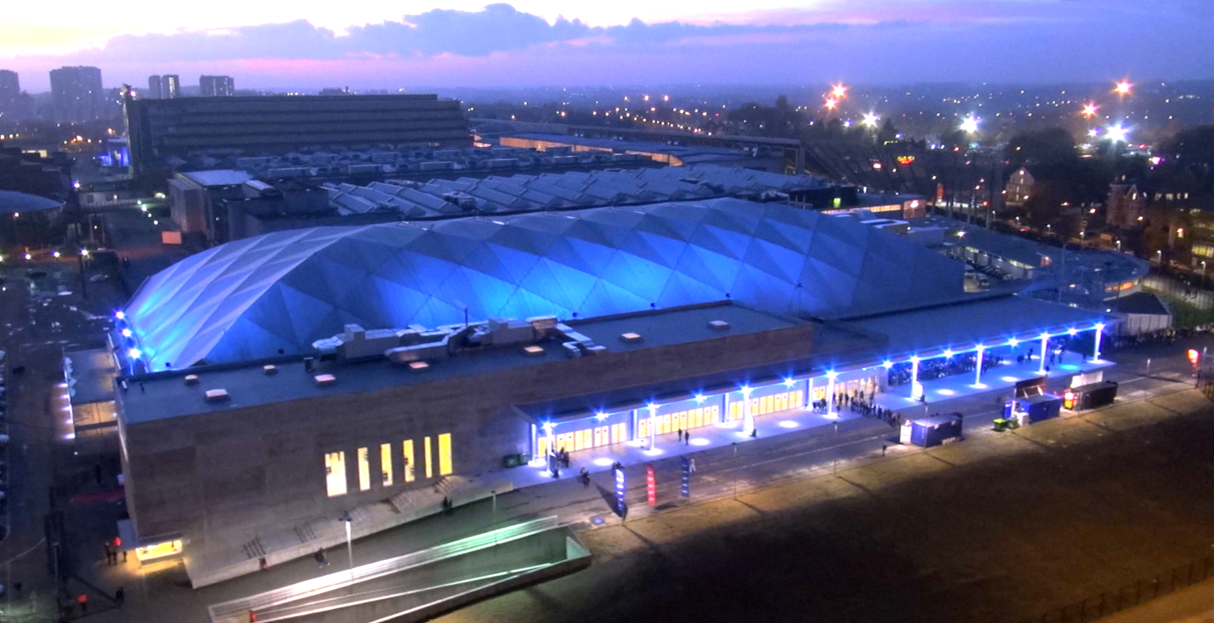 The Venue